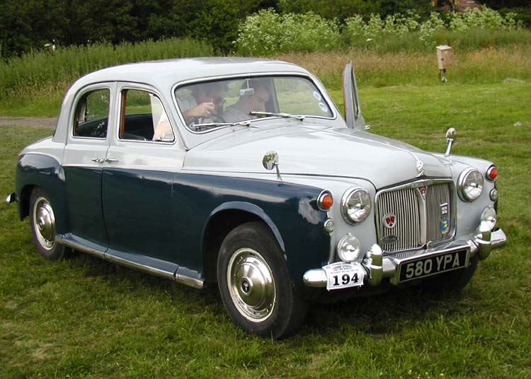 1960 Rover 80 at a Classics Rally, Bristol, England, in June 2003. The Rover 80 was manufactured 1960-1962. Picture taken by Adrian Pingstone and released to the public domain.